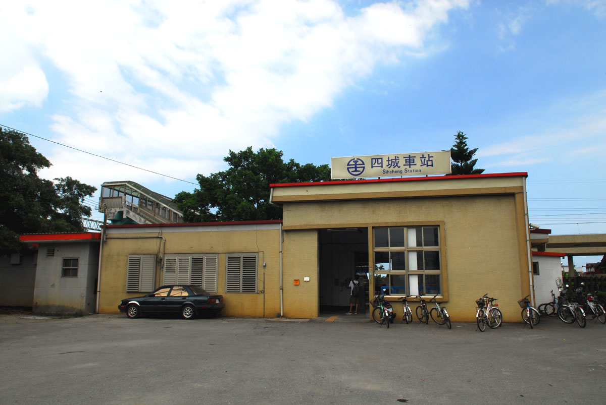 Sihcheng Station is a small local train station of Yilan Line, part of Taiwan's eastern rail line. It's located within the boundary of Jiaosi Township, Yilan County.